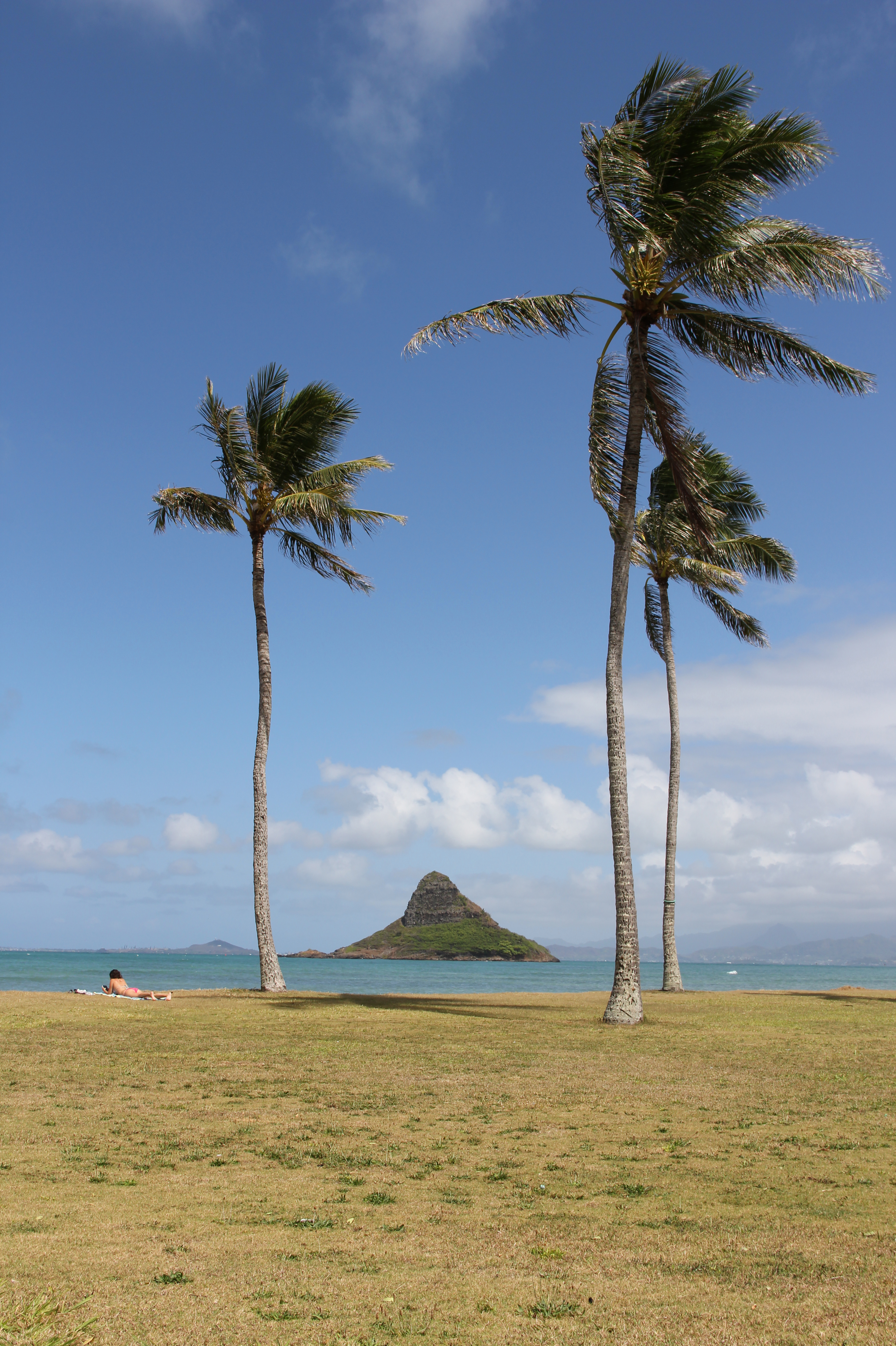 Picture of Mokoli'i islet (Chinaman's Hat) taken with a Canon EOS 60D at Kualoa Regional Park, Oahu (Hawaii).